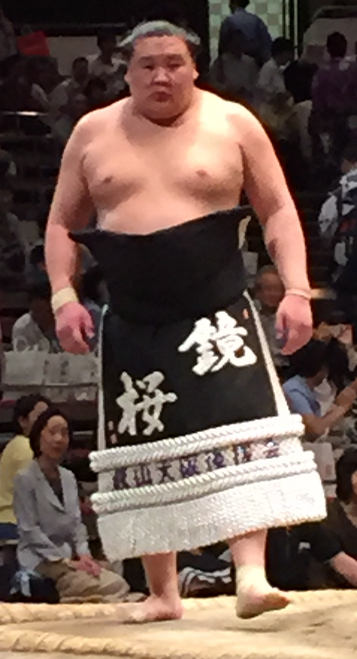 Picture taken at 2015 May tournament, 14th day.